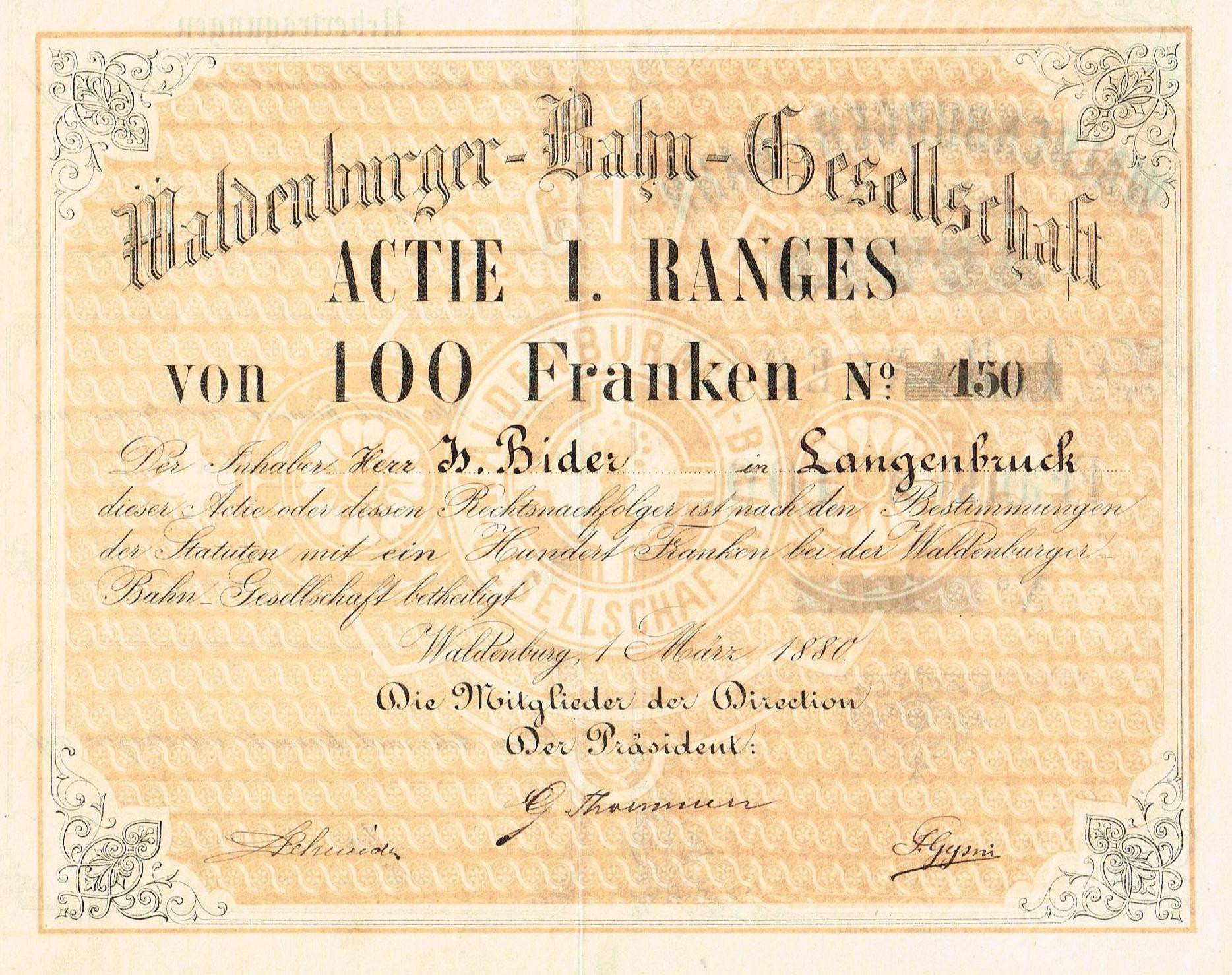 Share of the Waldenburger-Bahn-Gesellschaft, issued 1. March 1880